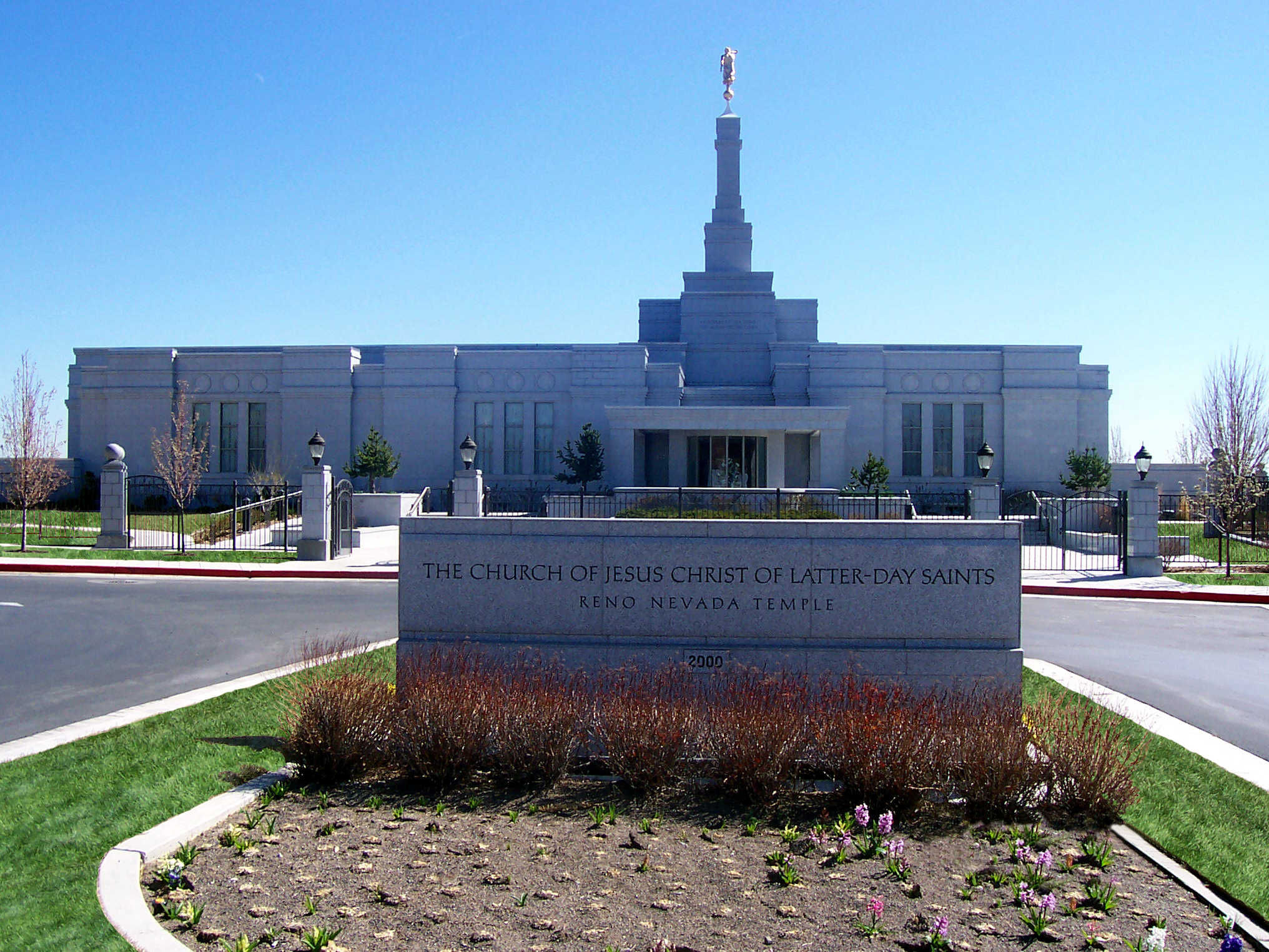 The Reno Nevada Temple of The Church of Jesus Christ of Latter-day Saints